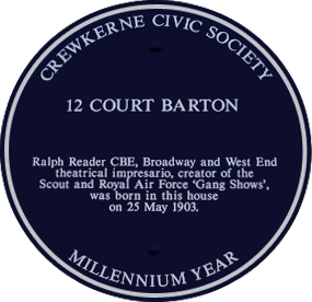 12 Court Barton - Blue Plaque There is now a Gang Show Fellowship which offers financial assistance to individuals in the Scout and Guide movements wanting to pursue a particular activity.